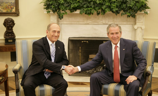 President George W. Bush exchanges handshakes with Prime Minister Ehud Olmert of Israel during their meeting Tuesday, May 23, 2006, in the Oval Office.